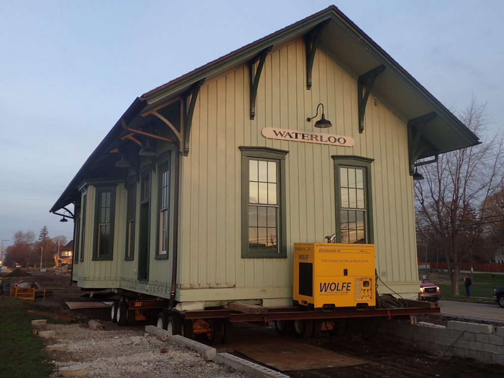 Waterloo Depot being relocated by Wolfe House & Building Movers on March 30, 2016.